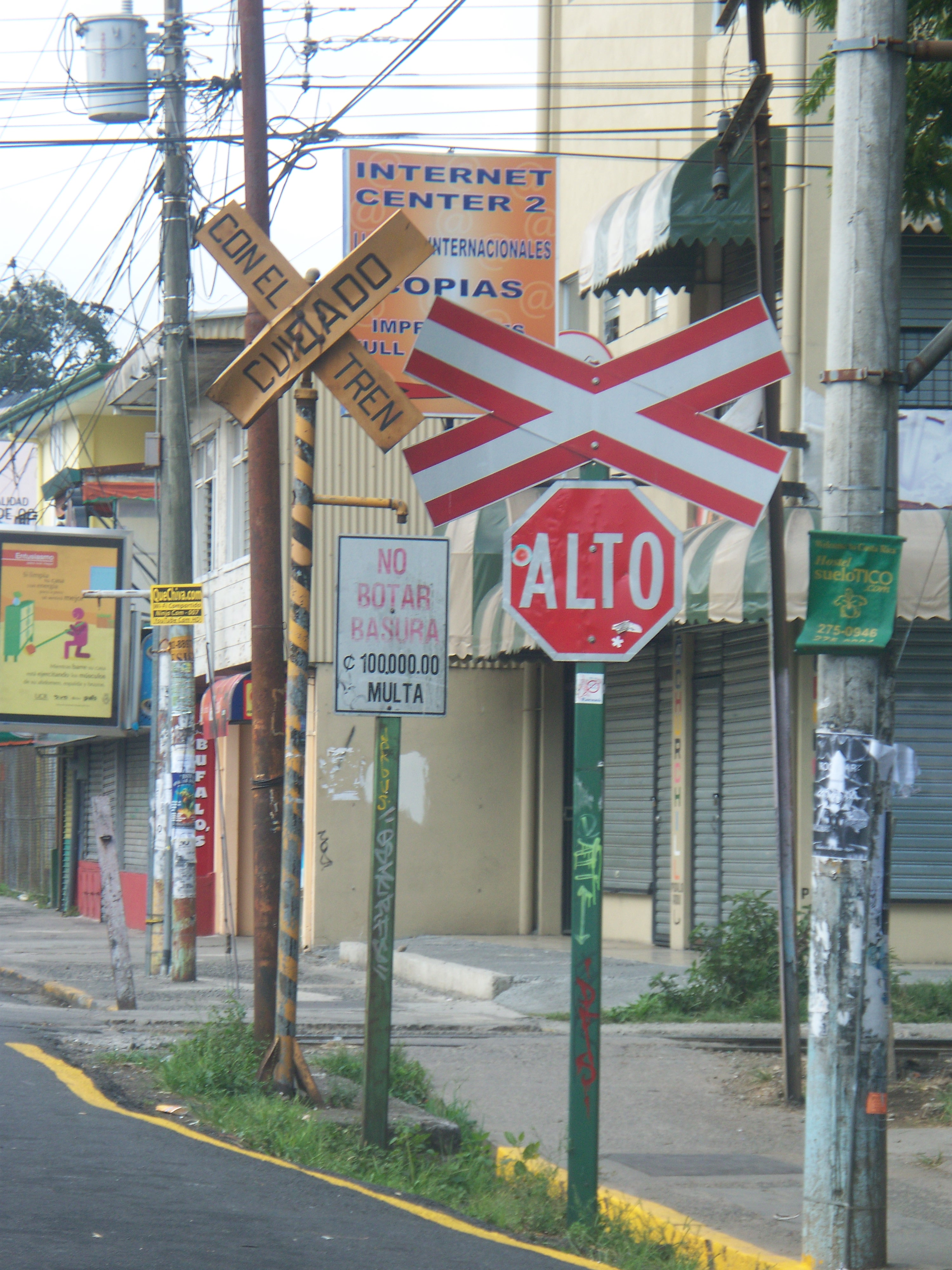 Narrow gauge Railroad crossing at Montes de Oca, Costa Rica, near University of Costa Rica